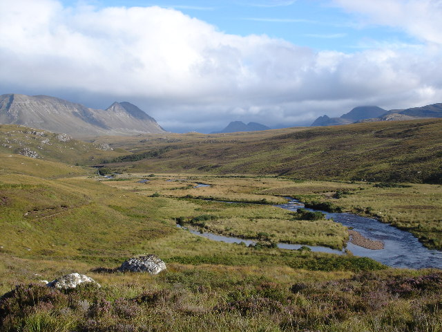 Abhainn Braigh Horrisdale. Taken from about 200m outside the gridsquare looking South-West upstream. The river splits and rejoins the join clearly seen. Photo picks out the flat flood plain area, showing the contrasting colours and vegetation. The ridge of Baosbheinn in the background.